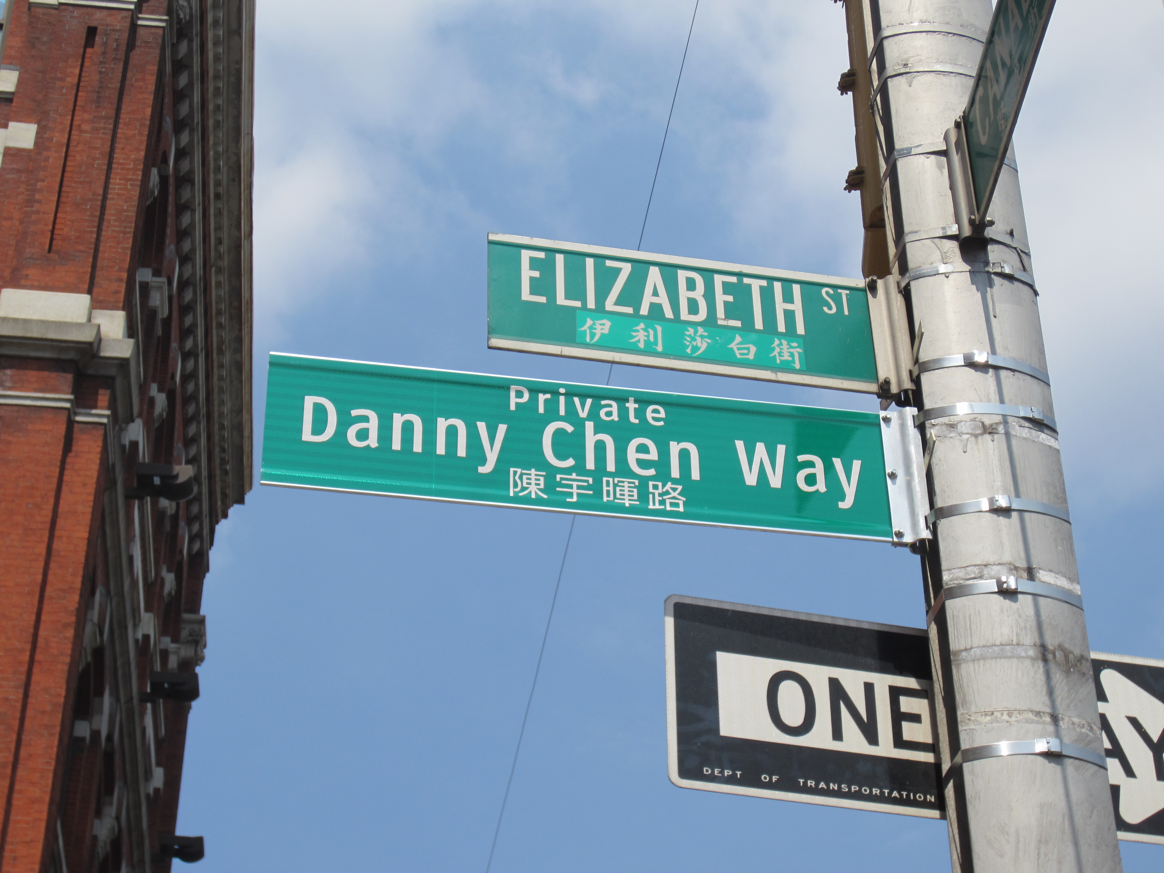 Chinatown, New York City (June 2014)